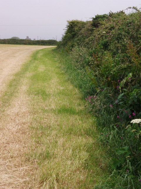 Lane to Rinsey. The houses that can just be seen are at Rinsey Croft.